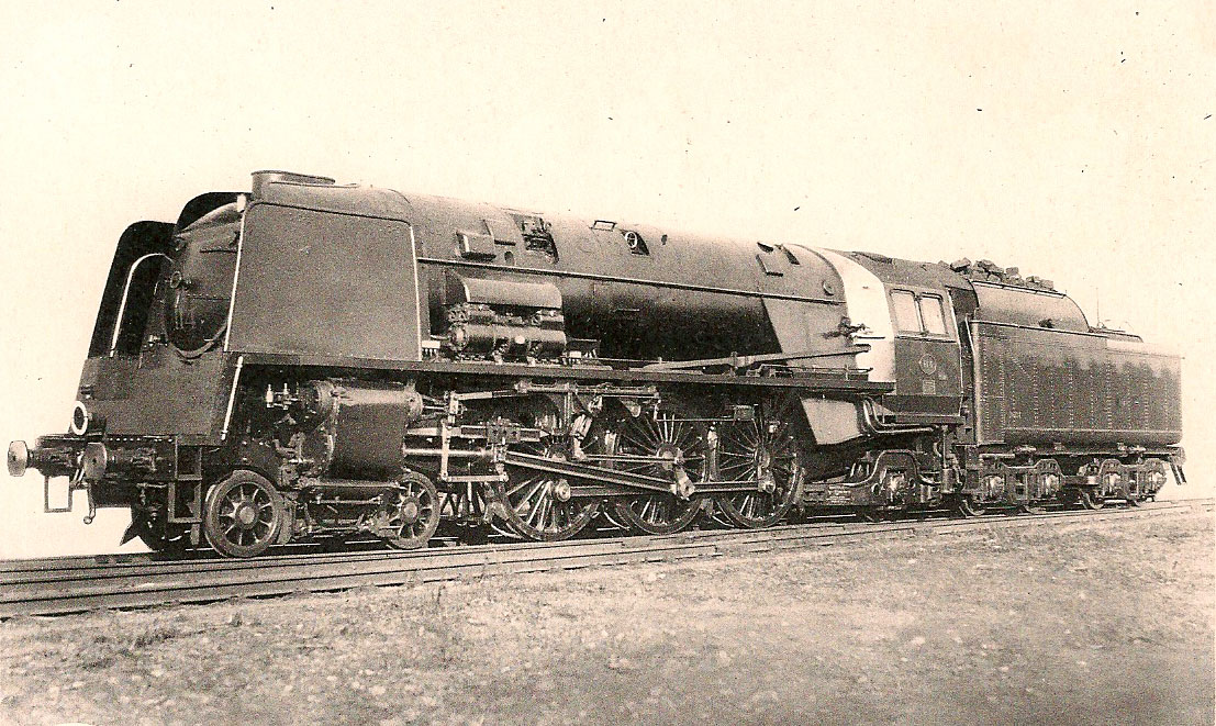 SNCB/NMBS Type 1 Steam Locomotive